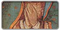 Rankos sudėtos maldai